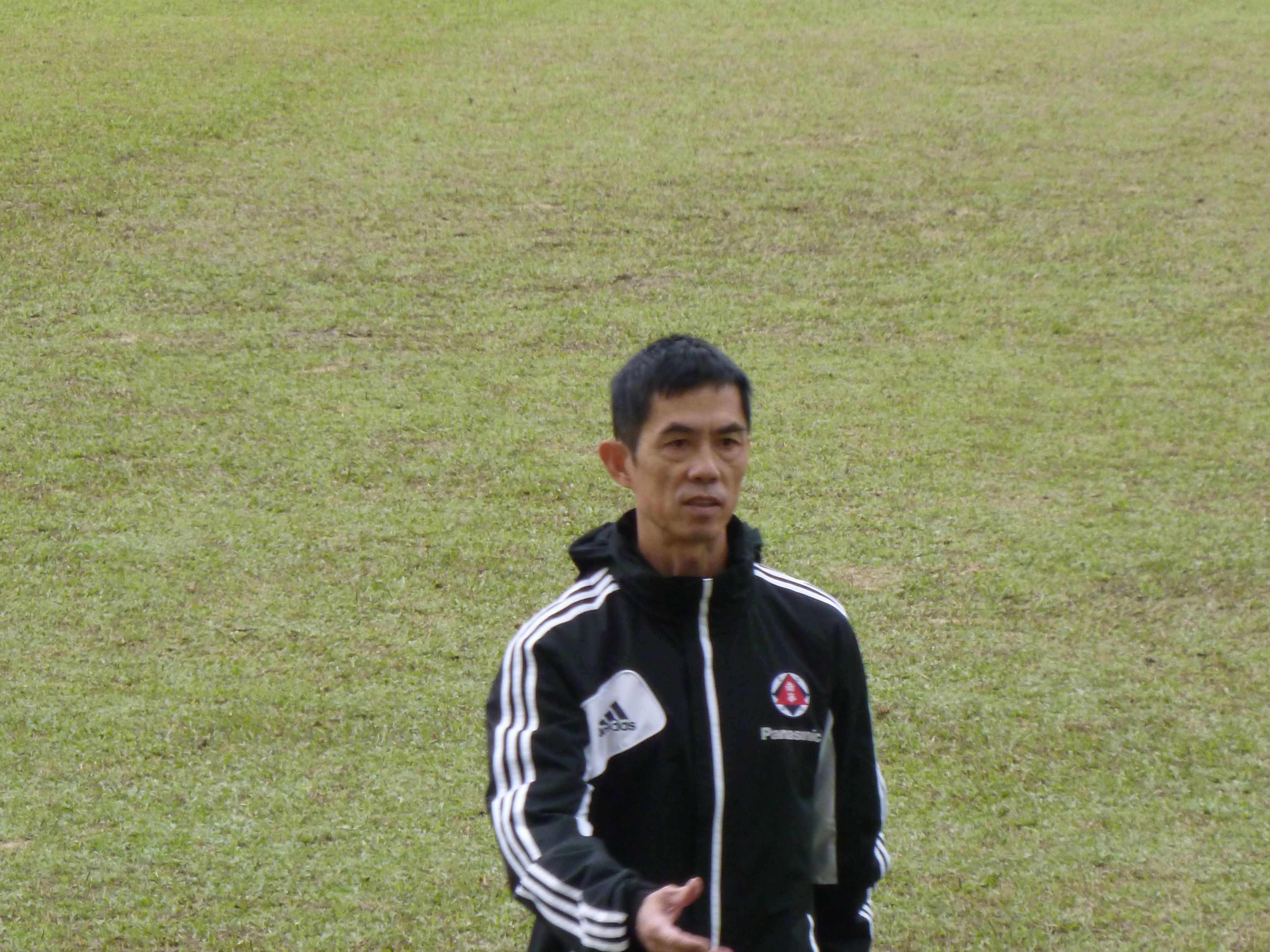 Liu Chun Fai (08 Dec 2012, Friendly Match, South China vs Benfica Macau, Mong Kok Stadium) 中文（香港）: 廖俊輝 (08 Dec 2012 友誼賽, 南華vs澳門賓菲加, 旺角大球場)